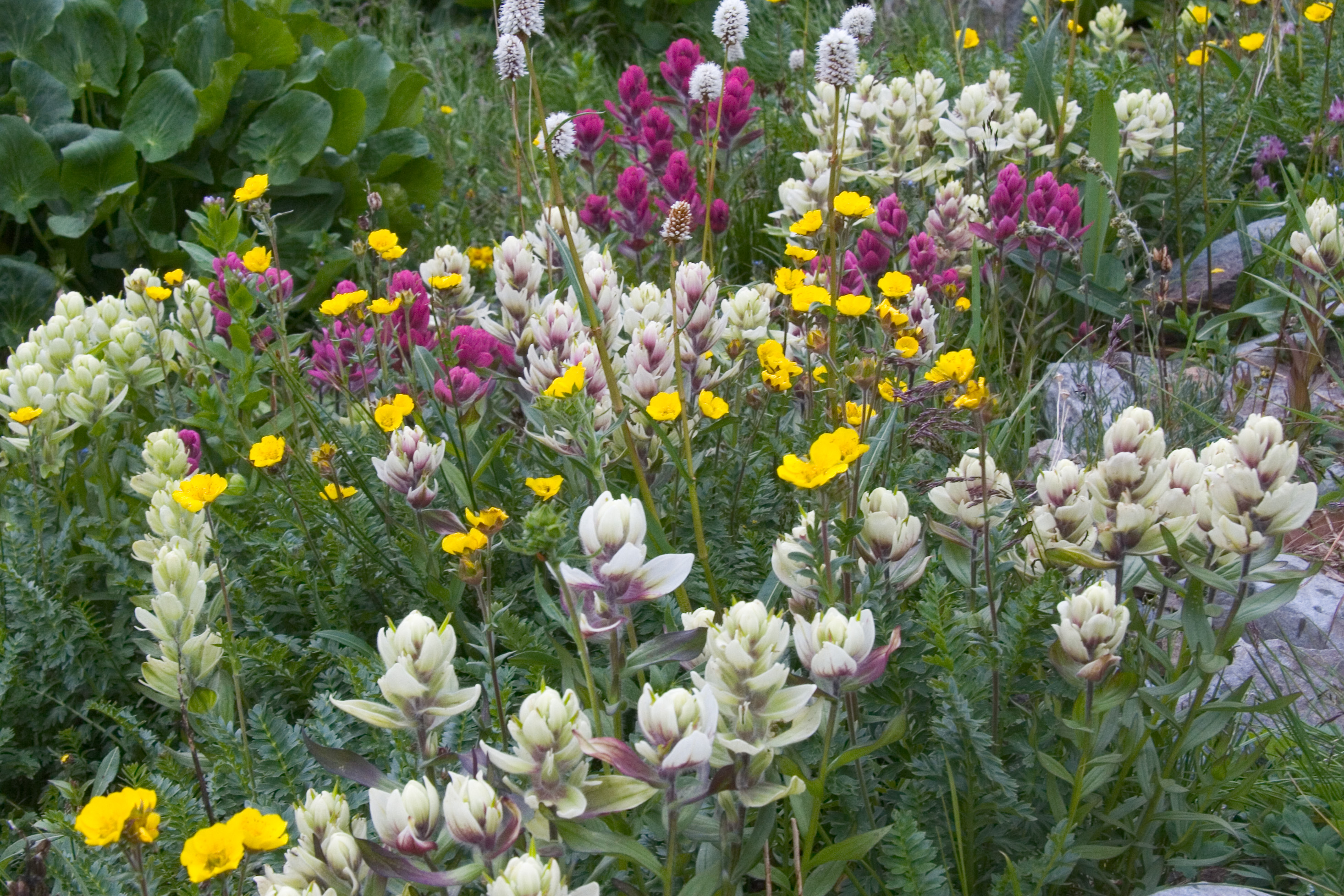 Wildflower medley